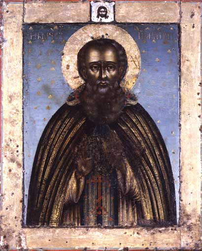 Gherman Solovetski